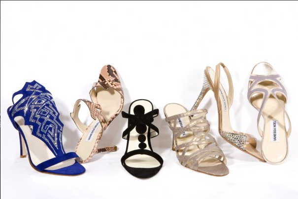 Group of shoes from Vanessa Noel's Spring 2010 couture footwear collection.